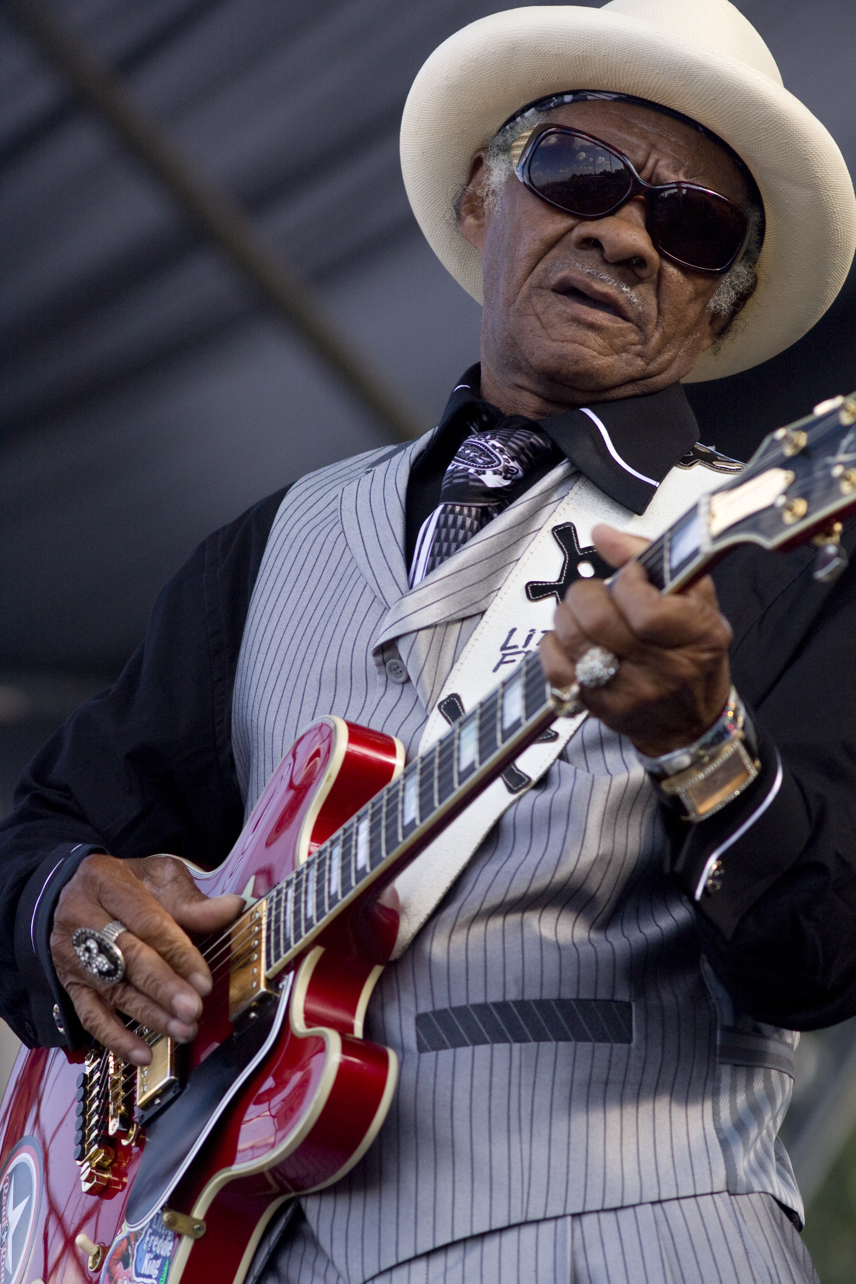 Little Freddie King playing at French Quarter Fest, New Orleans